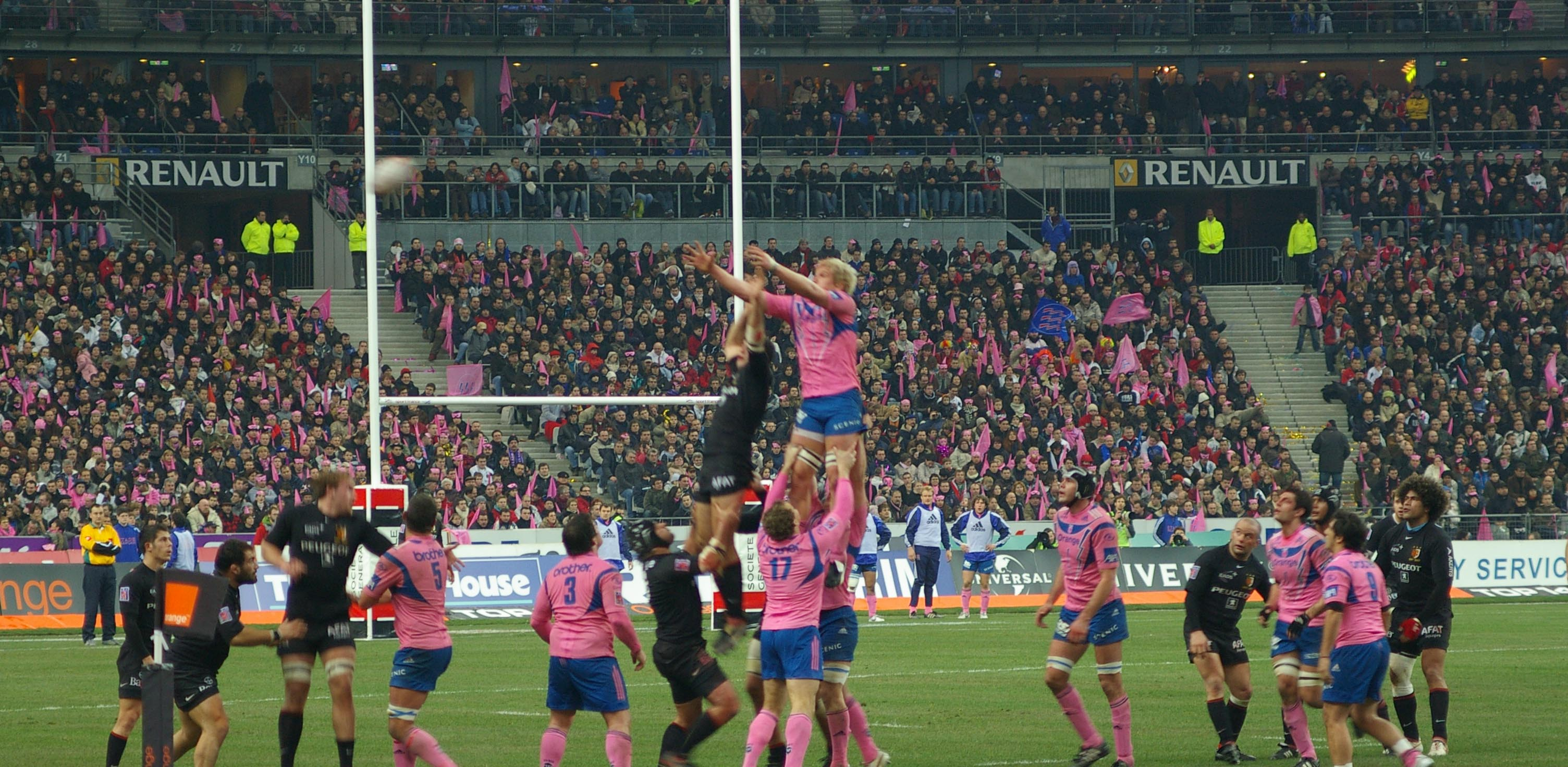 Pictures from the rugby game Stade Français vs Stade toulousain which took place in Stade de France, Paris, 27/01/2007.